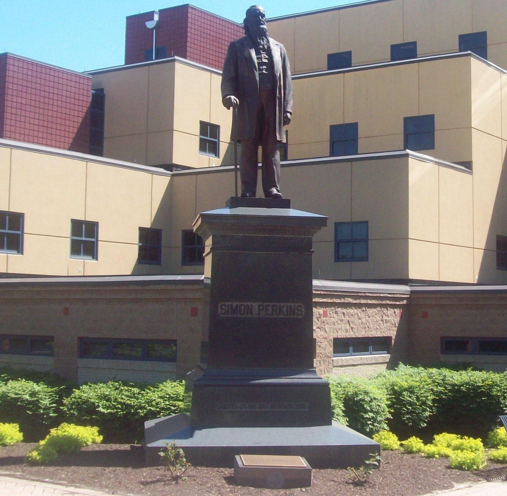 Simon Perkin Statue